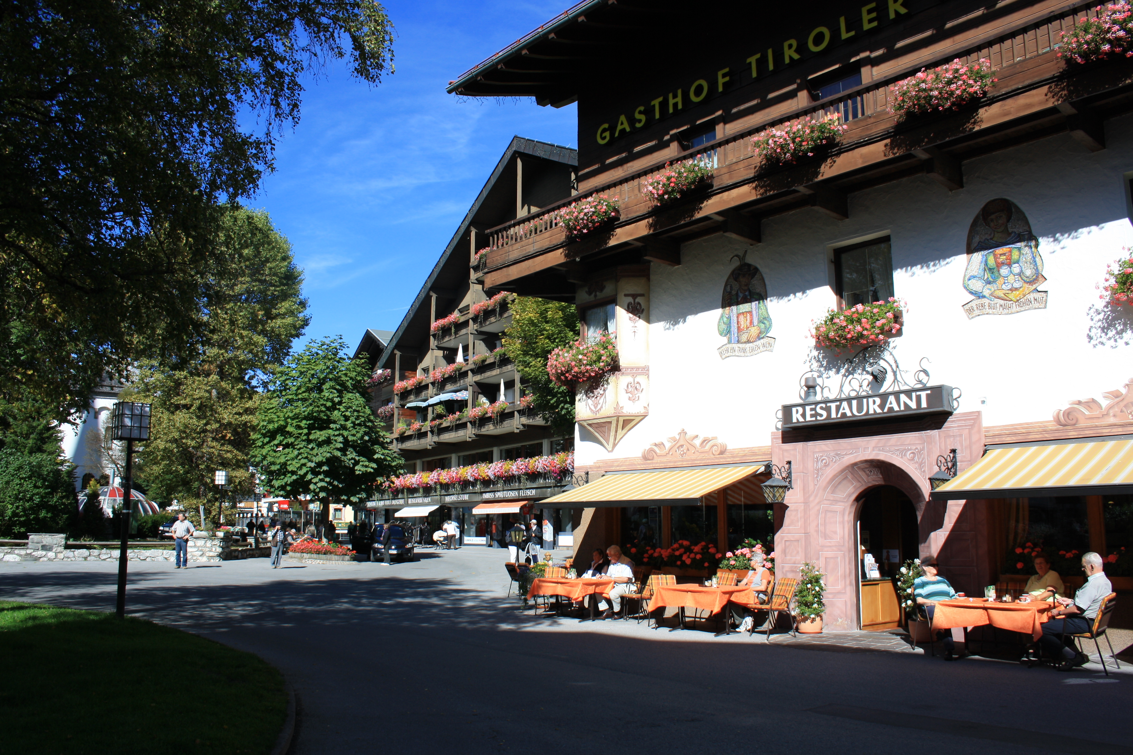 Seefeld in Tirol, the main square of the old village centre.